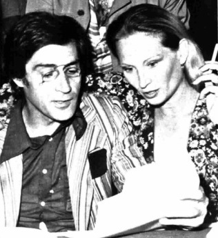 Italian actors Giancarlo Dettori and Carmen Scarpitta, Turin, December 1974